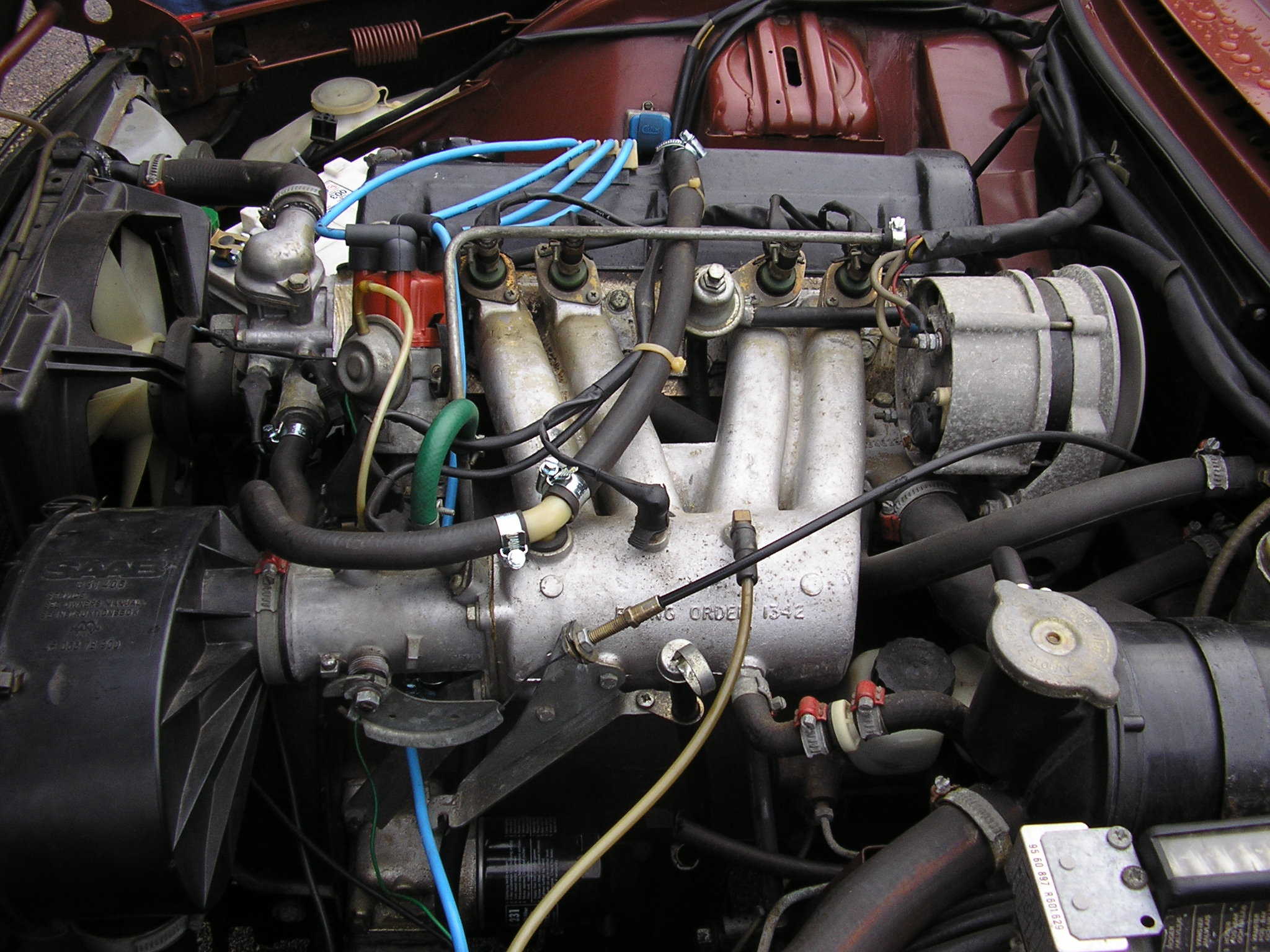 Engine bay of a 1974 SAAB 99LE. Photographed at the International SAAB Club Meeting 2006. It has a 110 hp fuel injected engine (the same engine as in the 99EMS). The 99LE was made for export and not inluded in the list of models in Sweden, but nonetheless some were sold in Sweden. The paint on the car is called "siennabrun" (sienna brown).